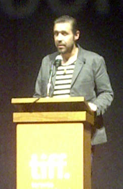 Paddy Considine in 2011